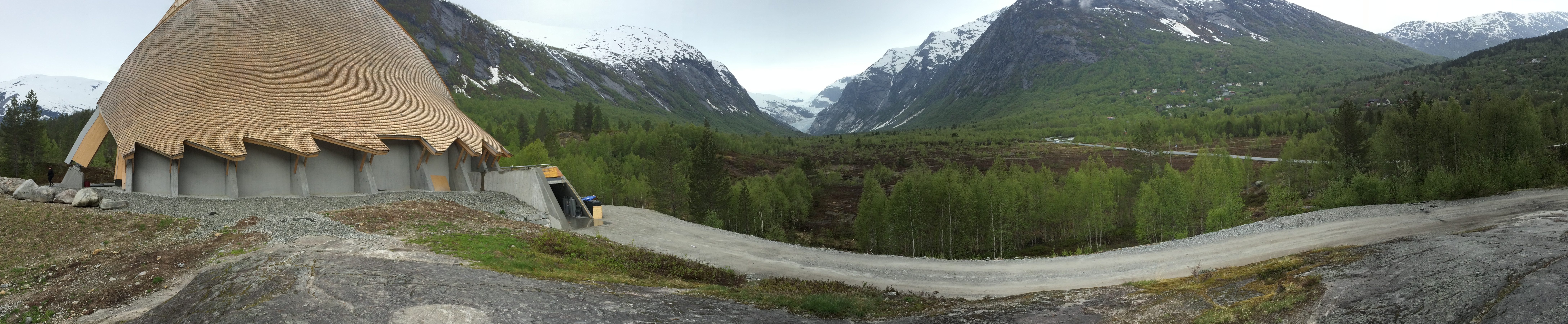 Panorama of Breheimsenteret in Jostedal, Norway with Nigardsbreen of Jostedalsbreen in the background. (iPhone panoramic photo, distortion may occur in details and continuity.)